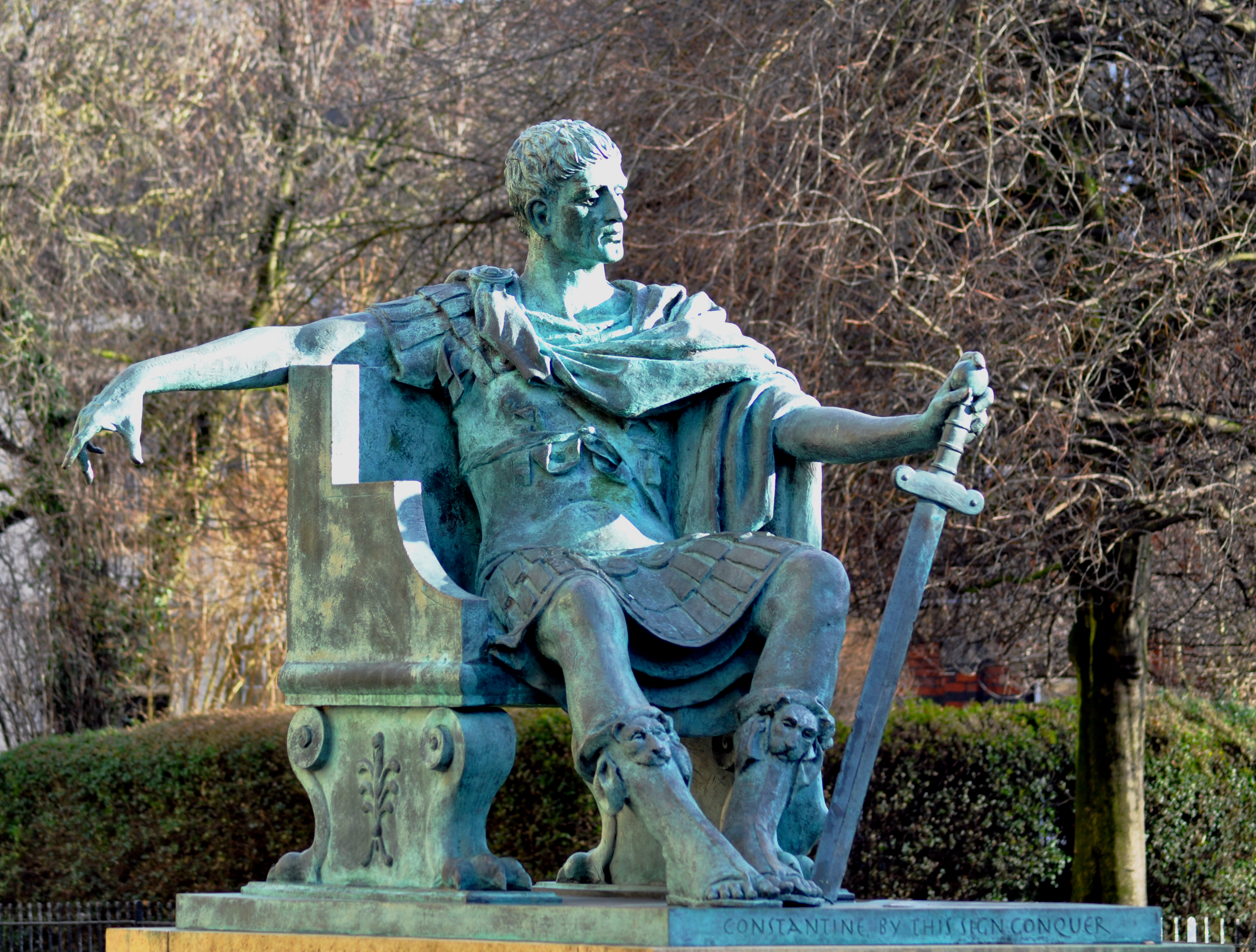 Bronze statue of Constantine the Great outside York Minster, England. The Emperor looks down upon his broken sword, which forms the shape of a cross. The statue was erected by the York Civic Trust and unveiled on 25 July 1998. (More facts)